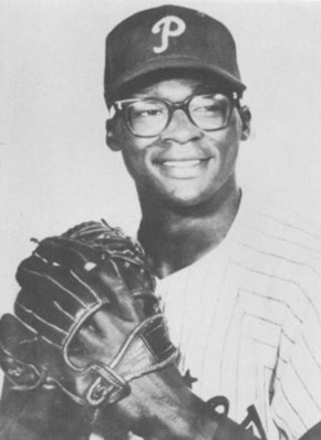 Professional baseball player Dick Allen